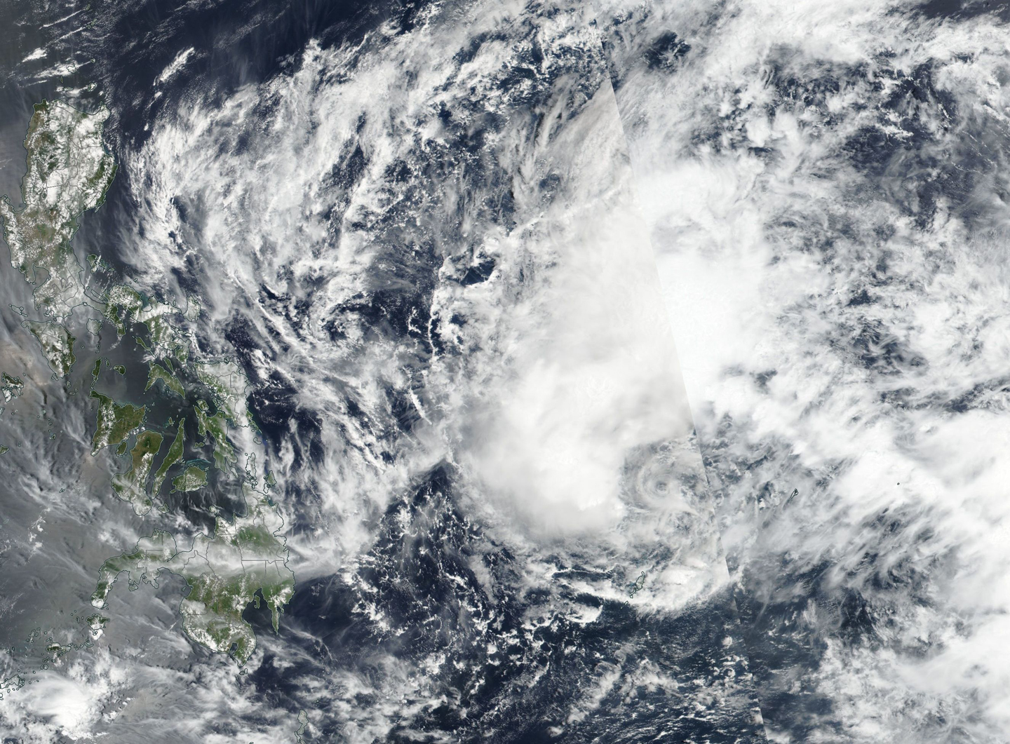 On March 27 at 8 a.m. EST (1200 UTC) NASA-NOAA's Suomi NPP satellite captured a visible image of Jelawat that showed that the bulk of the convection displaced to the north.